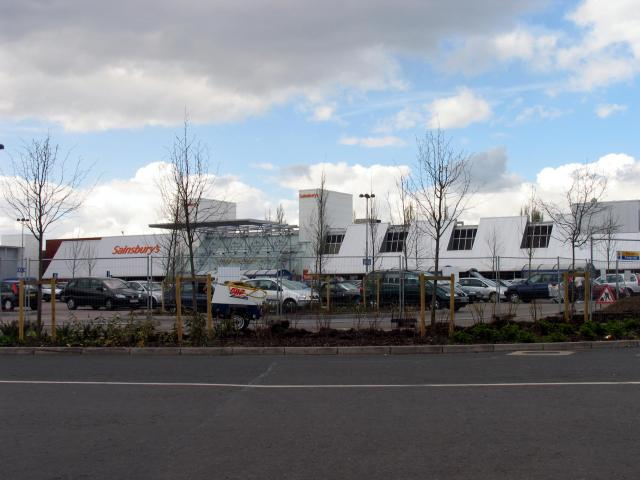 Sainsbury's Hypermarket Calcot. Situated in the northern section of the grid square, this large hypermarket has just undergone expansion.